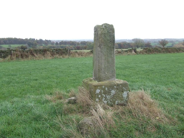 Lacon Cross Lacon Cross dates back to monastic times. It stood beside a route used by the monks of Fountains Abbey which is about two miles north-east of the cross.